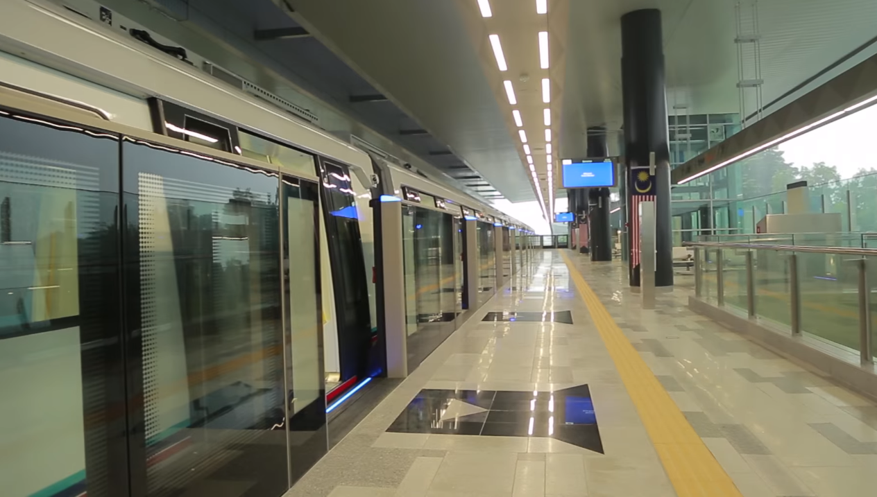 MRT SBK Semantan station platform